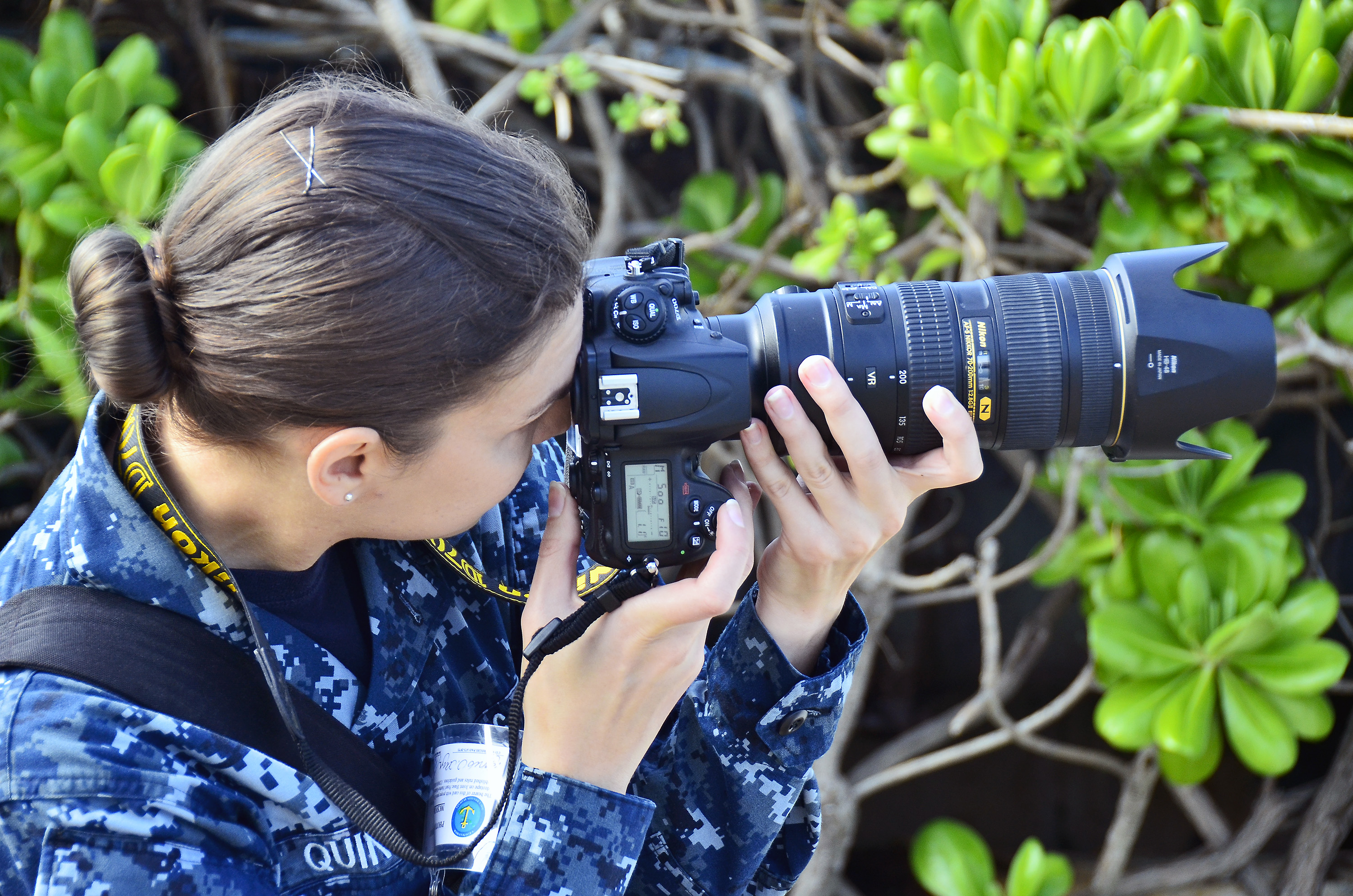 U.S. Navy Mass Communication Specialist 3rd Class Diana N. Quinlan documents the arrival of the littoral combat ship USS Freedom (LCS 1) to Joint Base Pearl Harbor-Hickam, Hawaii, for a scheduled port visit March 11, 2013. The ship visited on its way to the Asia-Pacific region.